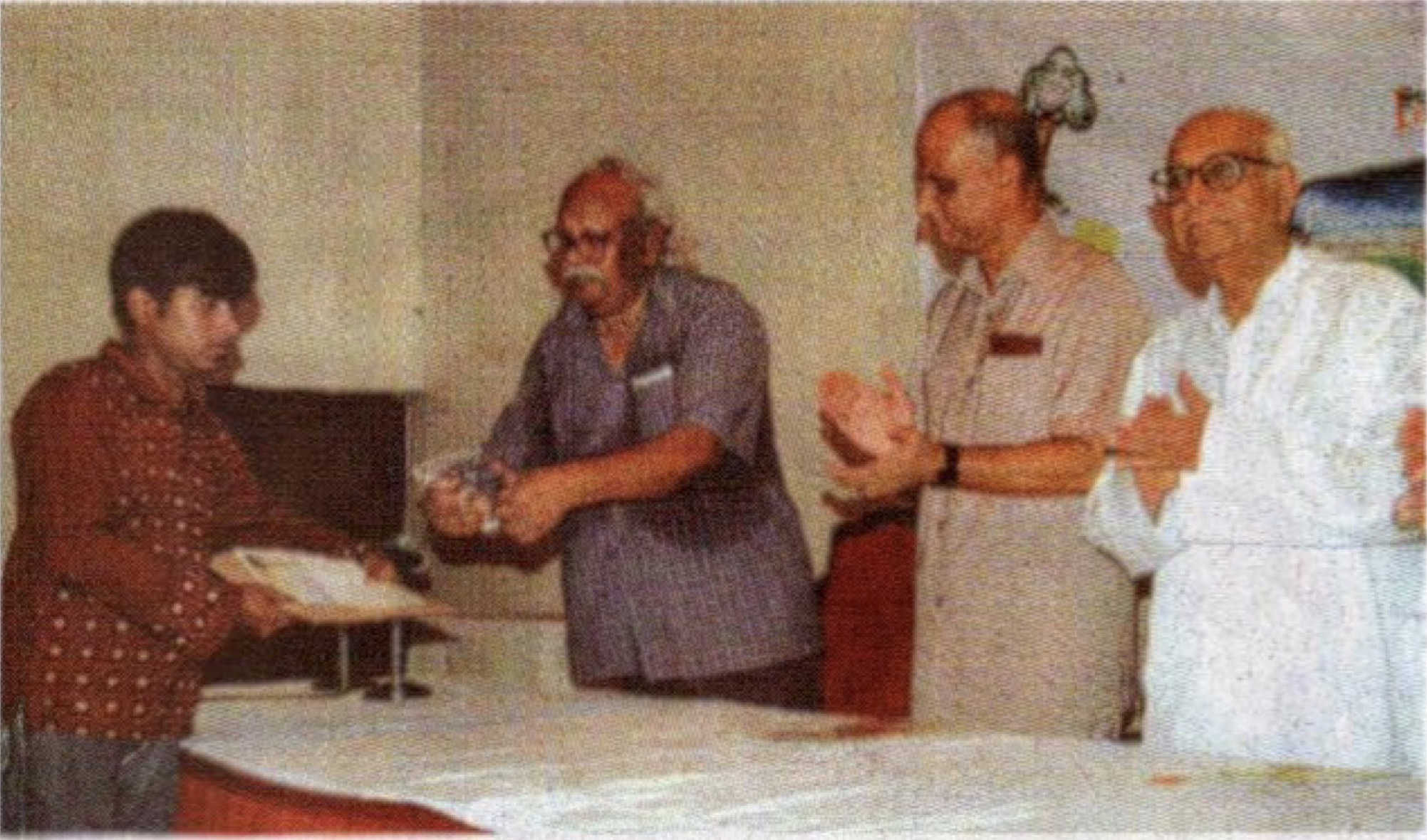 Photo from the The Daily Star Newspaper 2007. Award ceremony of The Daily Star Anti-corruption cartoon contest award. Arifur Rahman receiving an award from the legendary Bangladeshi cartoonist Rafiqun Nabi. Scan image from the News. I own the file, sharing from my flicker account. I am giving the file to use it on Wikipedia commence.